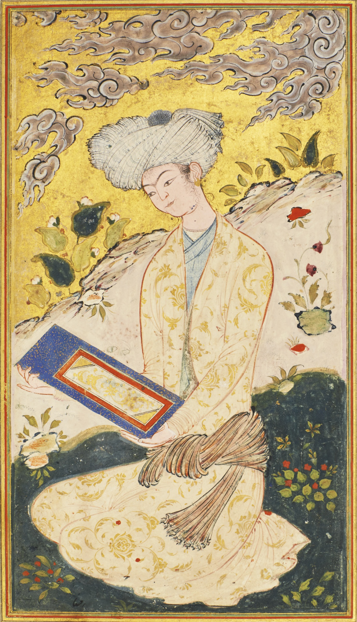 Sadiqi Beg, A youth within a rocky landscape, 1590-1600, Sotheby's